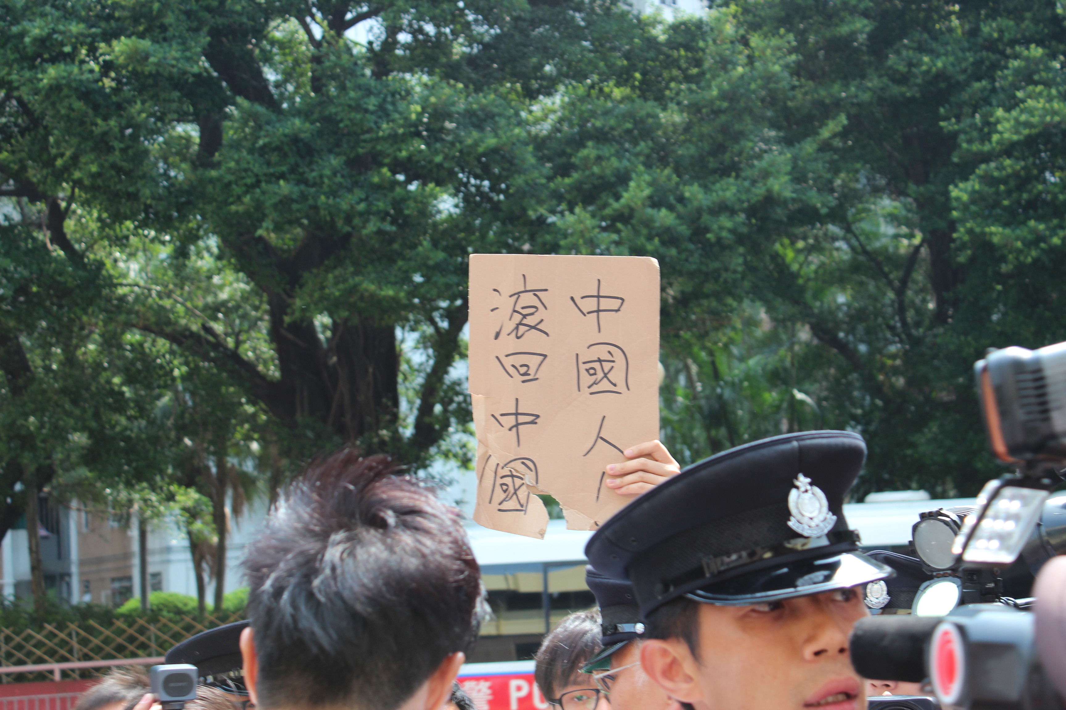 In the action to "Reclaim Sheung Shui Station", a protester holding a sign that reads "Chinese People Get Back to China.中文（香港）: "光復上水站"行動中，一示威者舉起"中國人滖回中國"標語